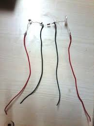 Connection